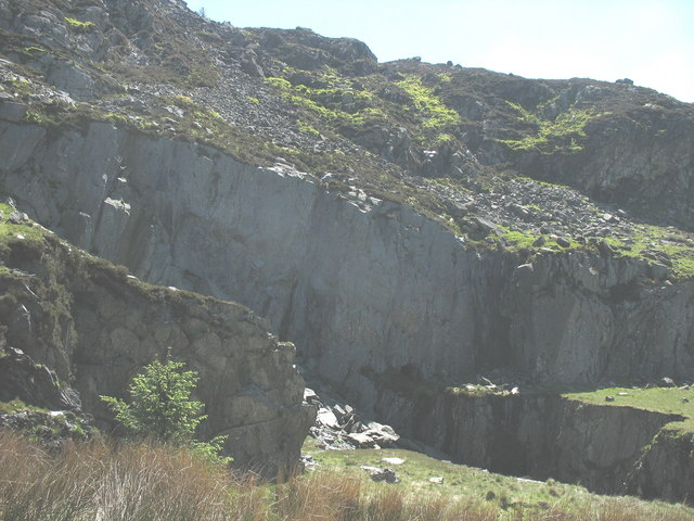 Pit of the Prince of Wales Quarry, Cwm Trwsgl. At this quarry, which was operative between the 1860s and 1880s, the extraction of slate was done on the north east of the site and tipping on the south west. These open pits are close to the path from Rhyd-ddu to Dolbenmae.